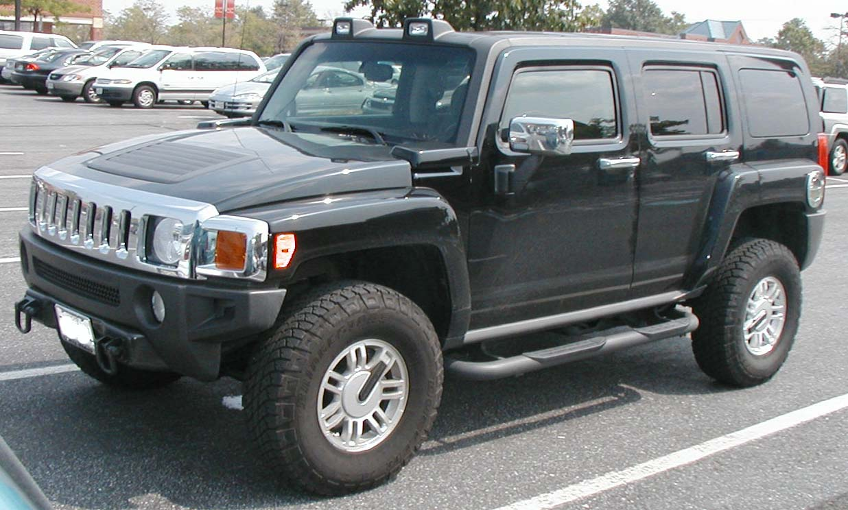 2006 Hummer H3 photographed in USA.